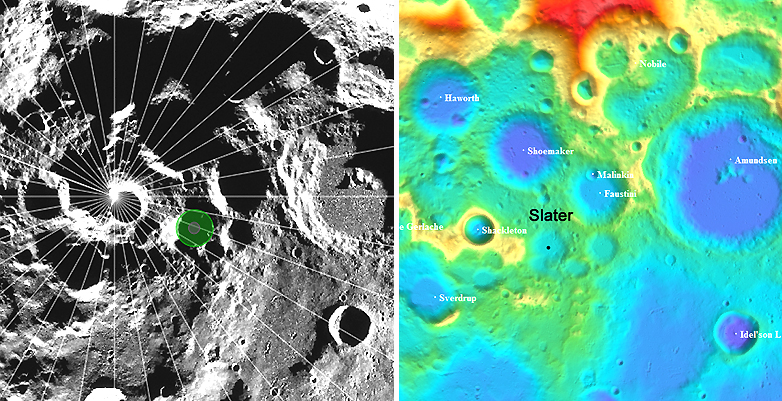 Slater lunar crater (chart LAC-144).